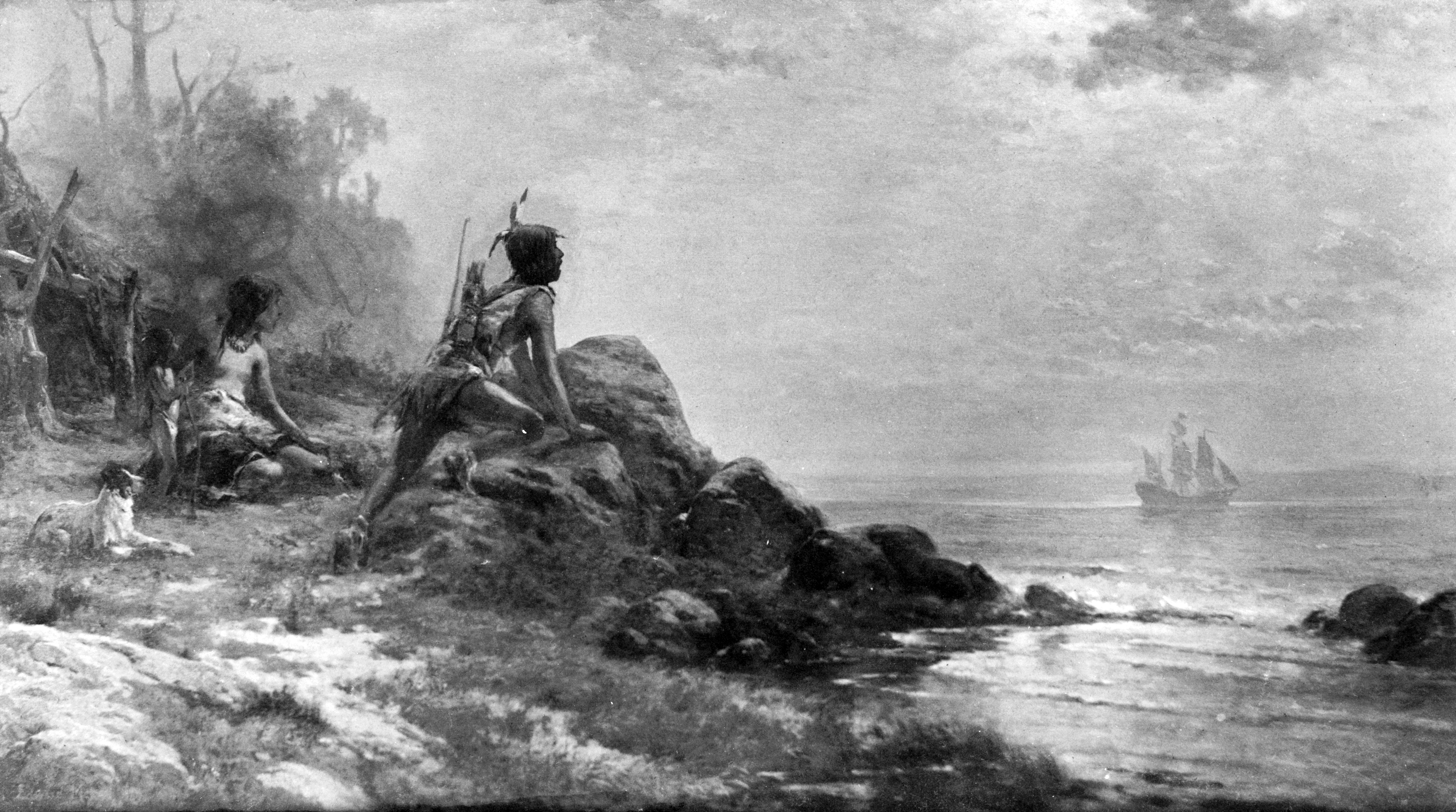 Sir Henry Hudson entering New York Bay, September 11, 1609, with Indian family watching on shore in foreground